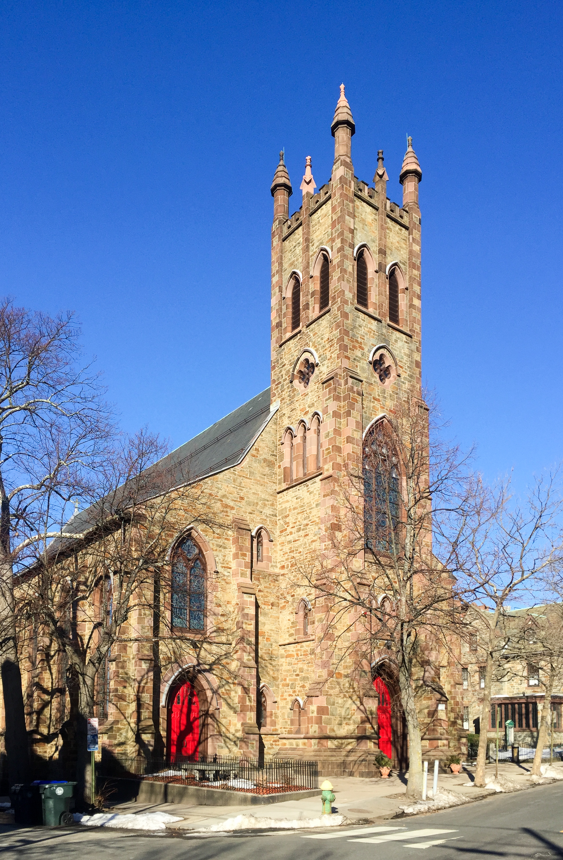 Saint Joseph Roman Catholic Church, Hope Street, Providence RI. erected in 1853